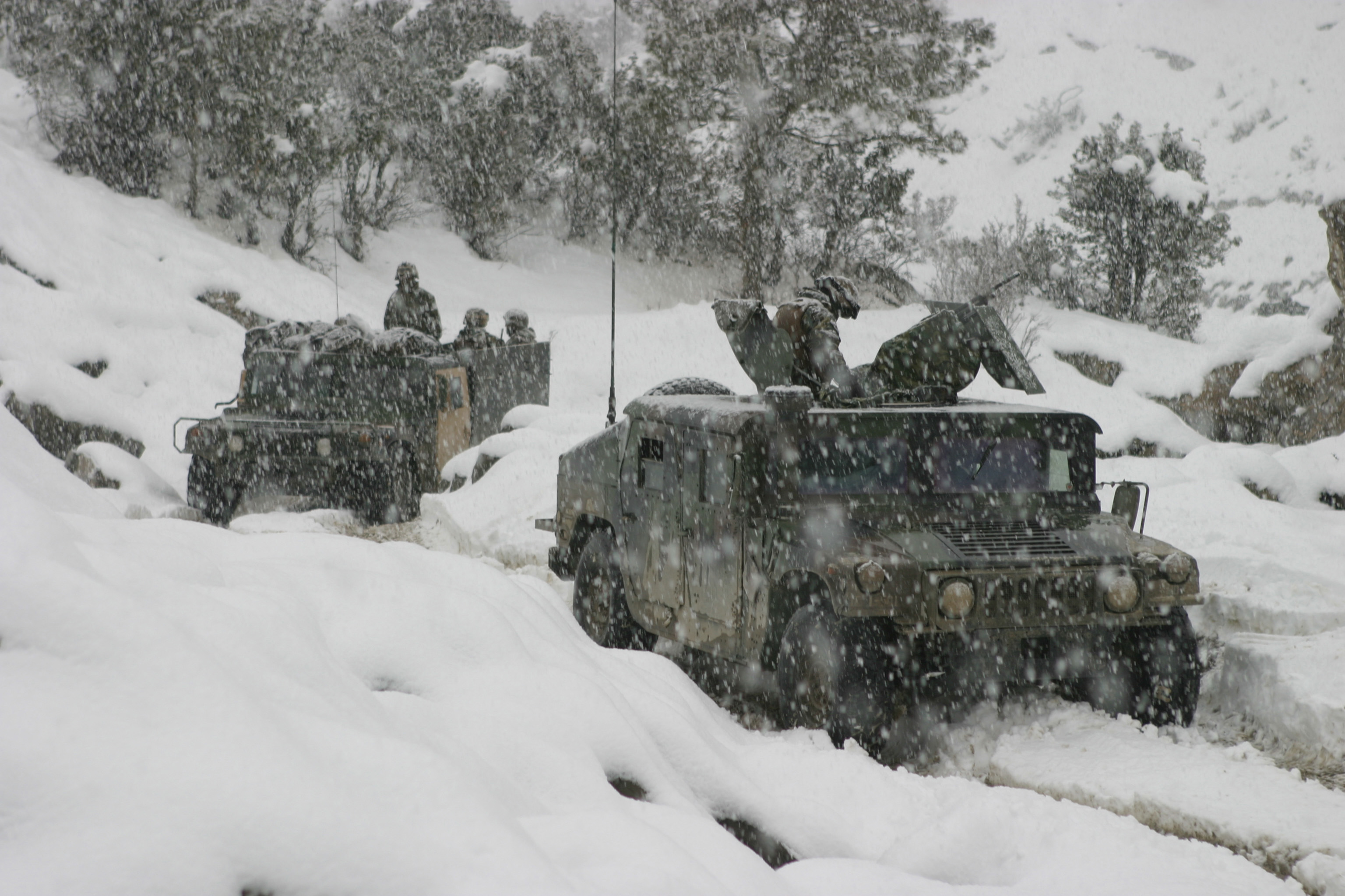 U.S. Marines conduct a mounted patrol in the cold and snowy weather of the Khowst-Gardez Pass in Afghanistan on Dec. 30, 2004. Marines of the 3rd Battalion, 3rd Marines, are conducting security and stabilization operations in support of Operation Enduring Freedom.